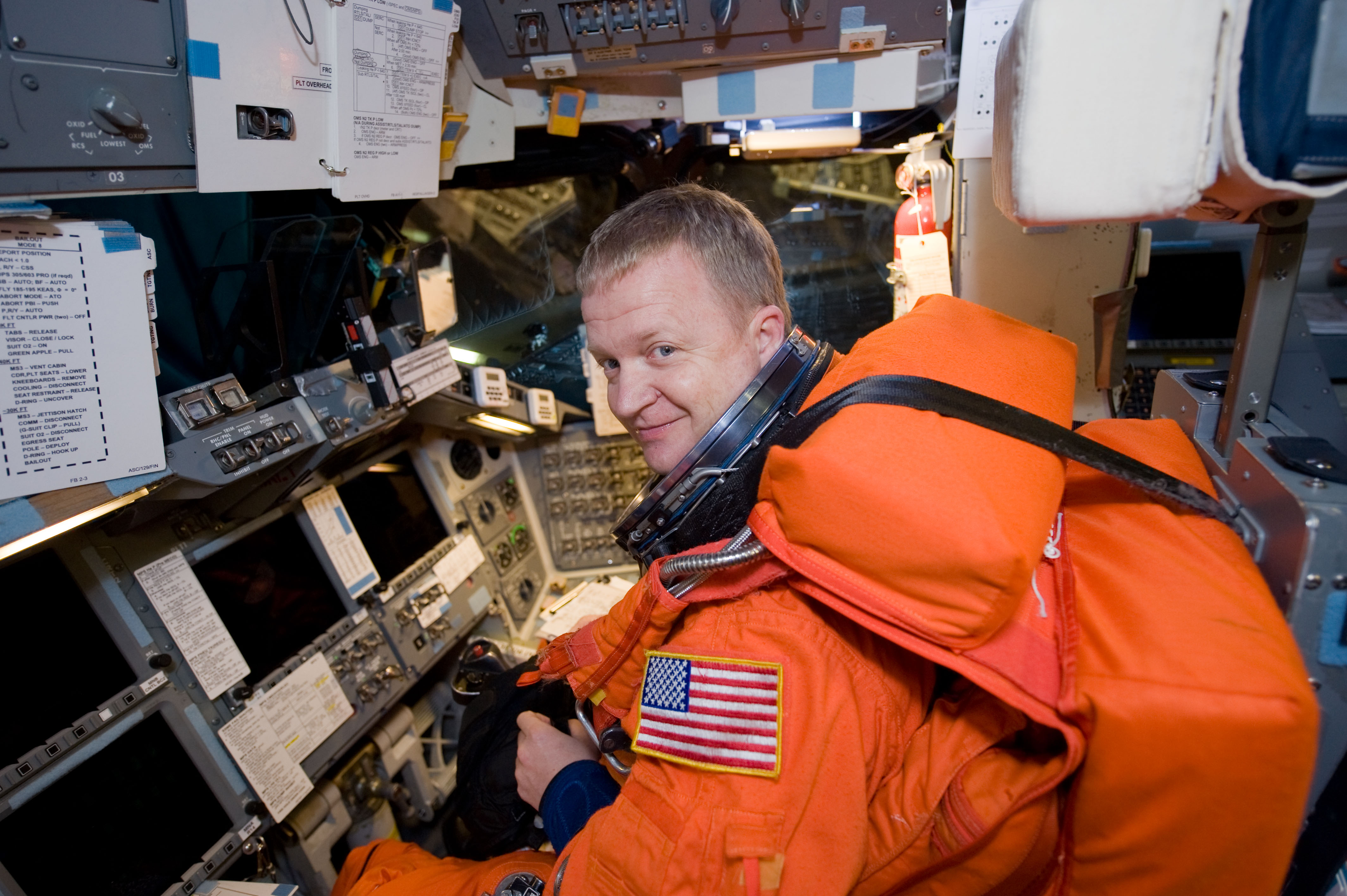 Attired in a training version of his shuttle launch and entry suit, NASA astronaut Eric Boe, STS-133 pilot, occupies the pilot's station during a simulation exercise in the motion-base shuttle mission simulator in the Jake Garn Simulation and Training Facility at NASA's Johnson Space Center.